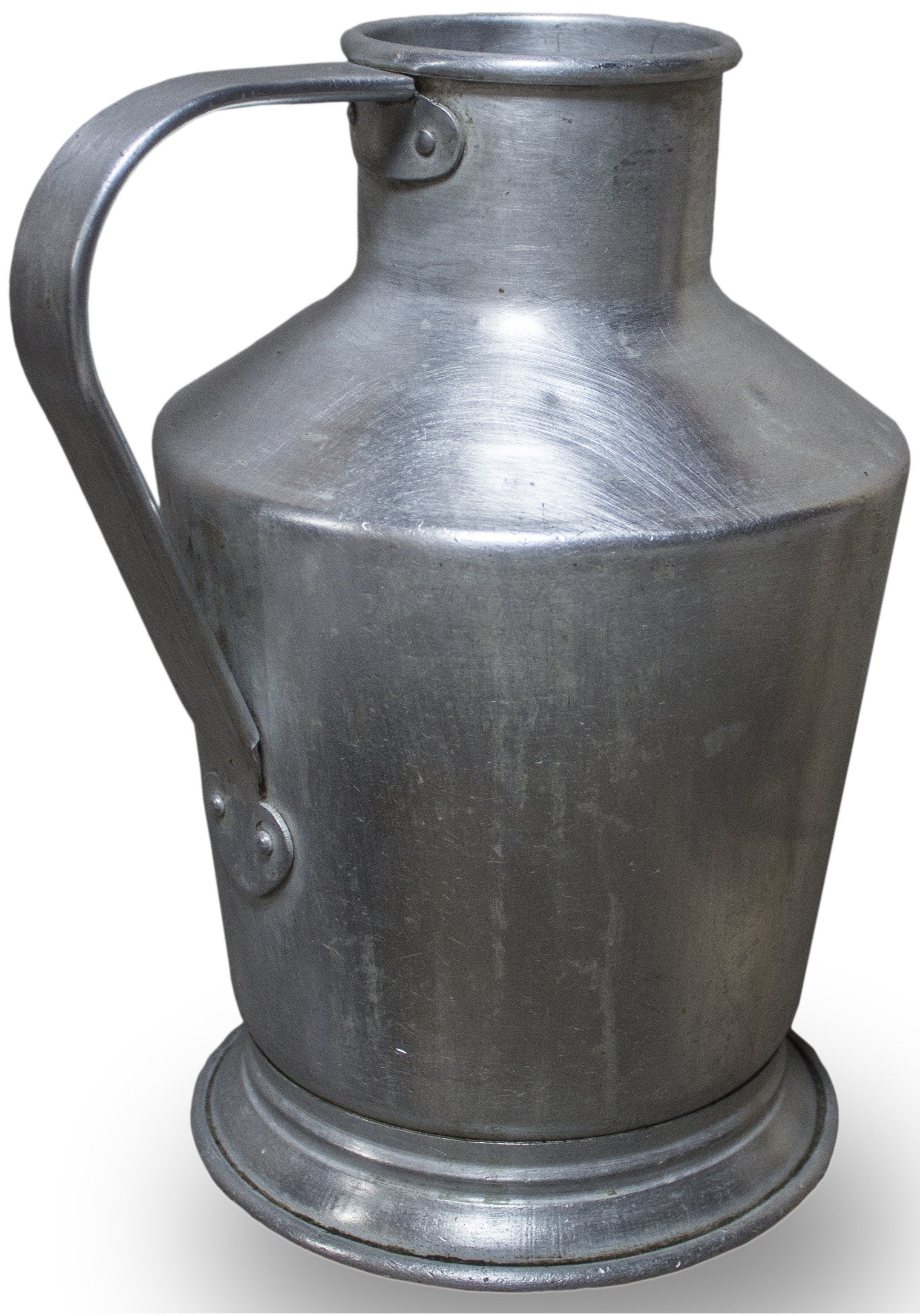 Ceglédi kanna - Cegléd jug jar - a water jug jar and a musical instrument used by Hungarian Roma musicians. Note that a jug has a spout, the jar has not.